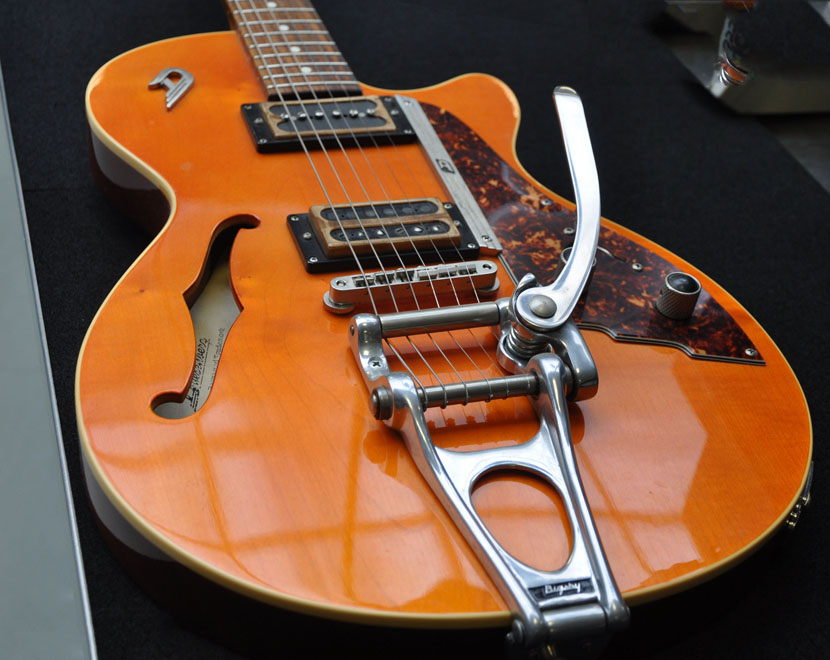 First Version of the Duesenberg Starplayer